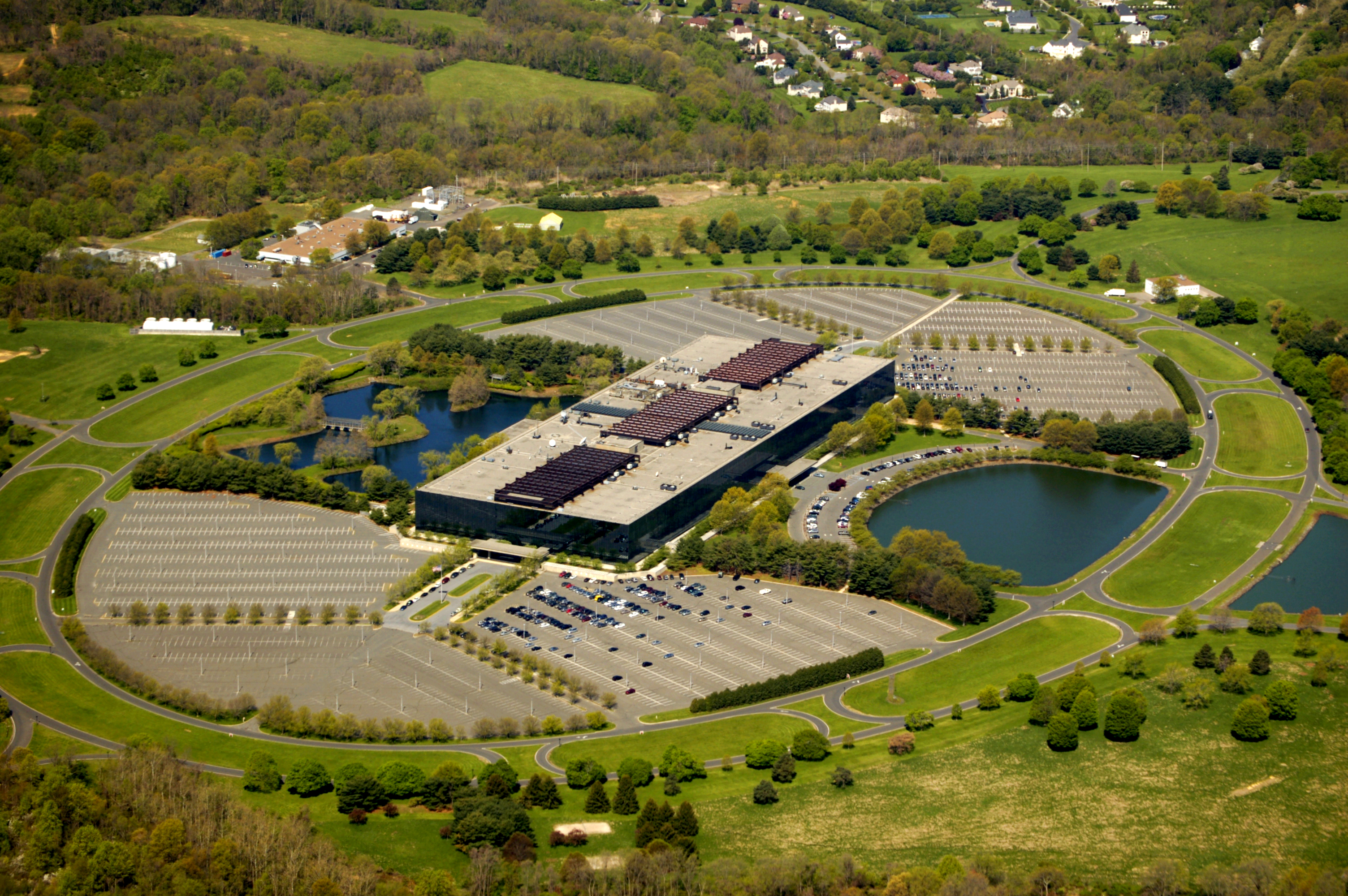 Aerial view of Bell Labs Holmdel Complex. The Bell Labs building in Holmdel is an architectural heirloom, designed by renowned architect Eero Saarinen, with a proud and distinguished history. For 44 years it was the home of an advanced research lab owned successively by Bell Telephone, AT&T, Lucent, and Alcatel.